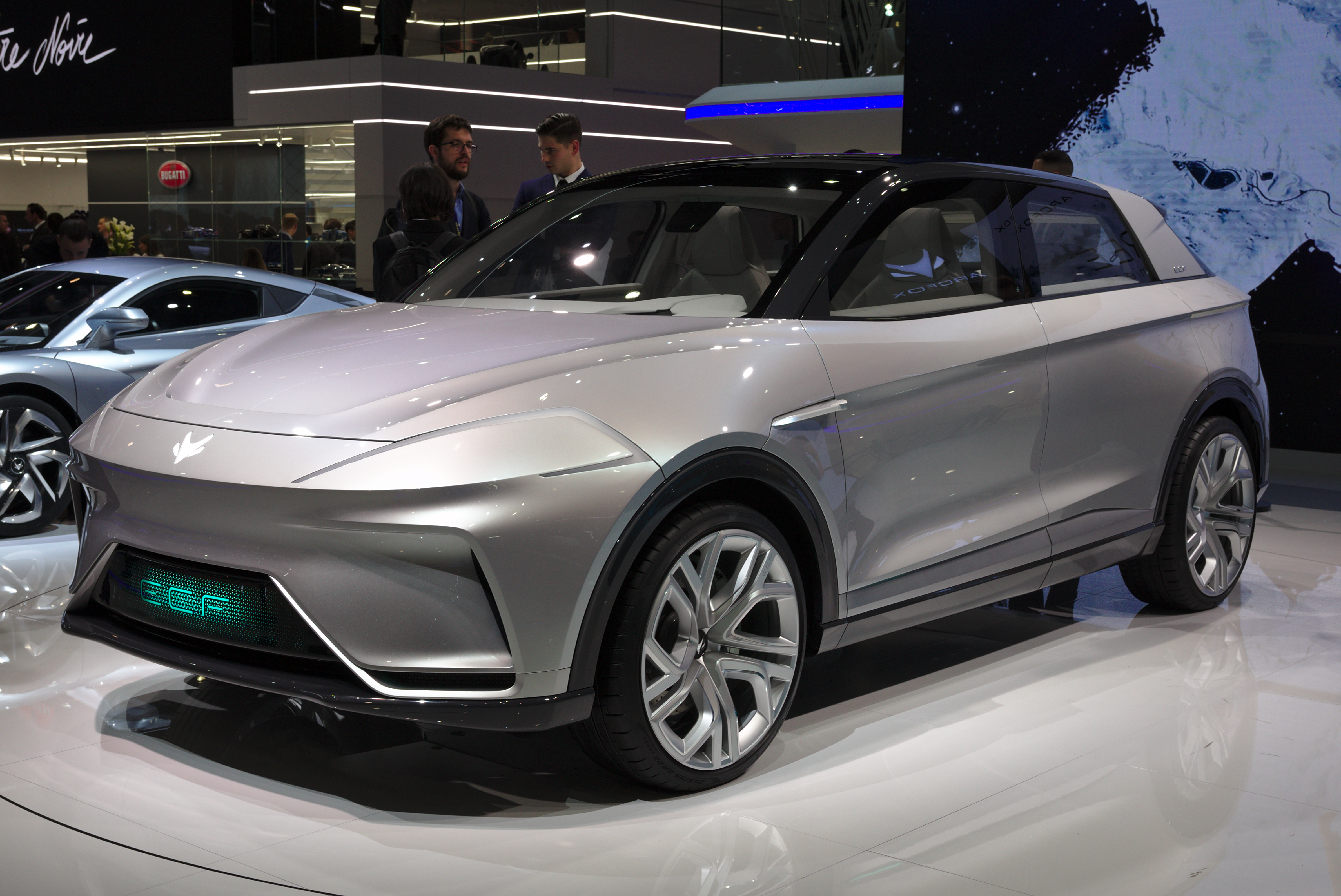 Arcfox ECF at Geneva Motor Show 2019